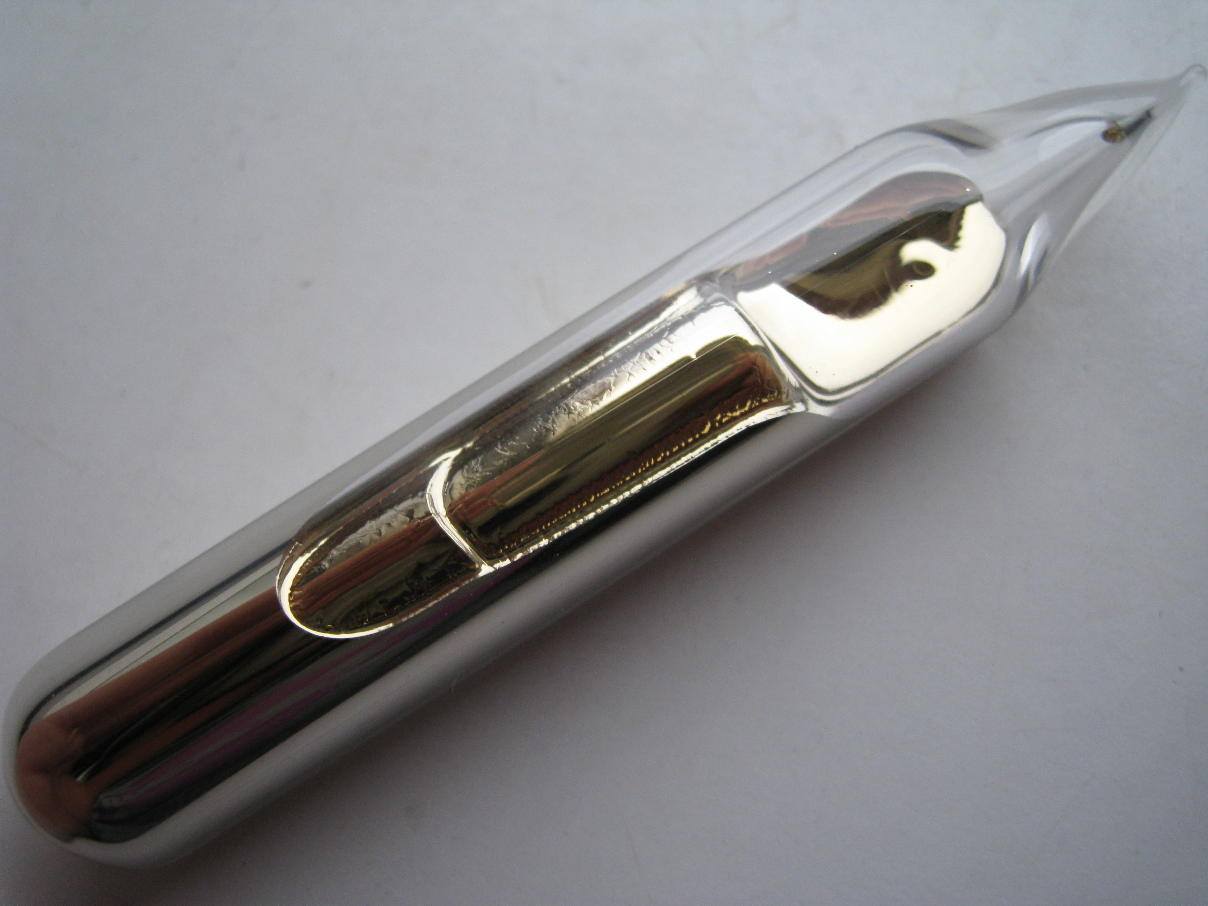 Cesium/Caesium metal from the Dennis s.k collection.